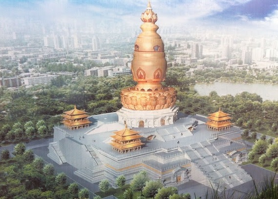 Project Of Wenshang County Zhongdu Buddha Garden Tourist Zone Development